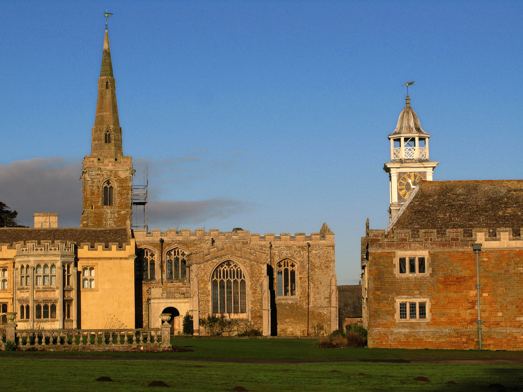 Nevill Holt, Leicestershire, England. On the left is Nevill Holt Hall, on the right is its stable block and between them is St Mary's parish church.